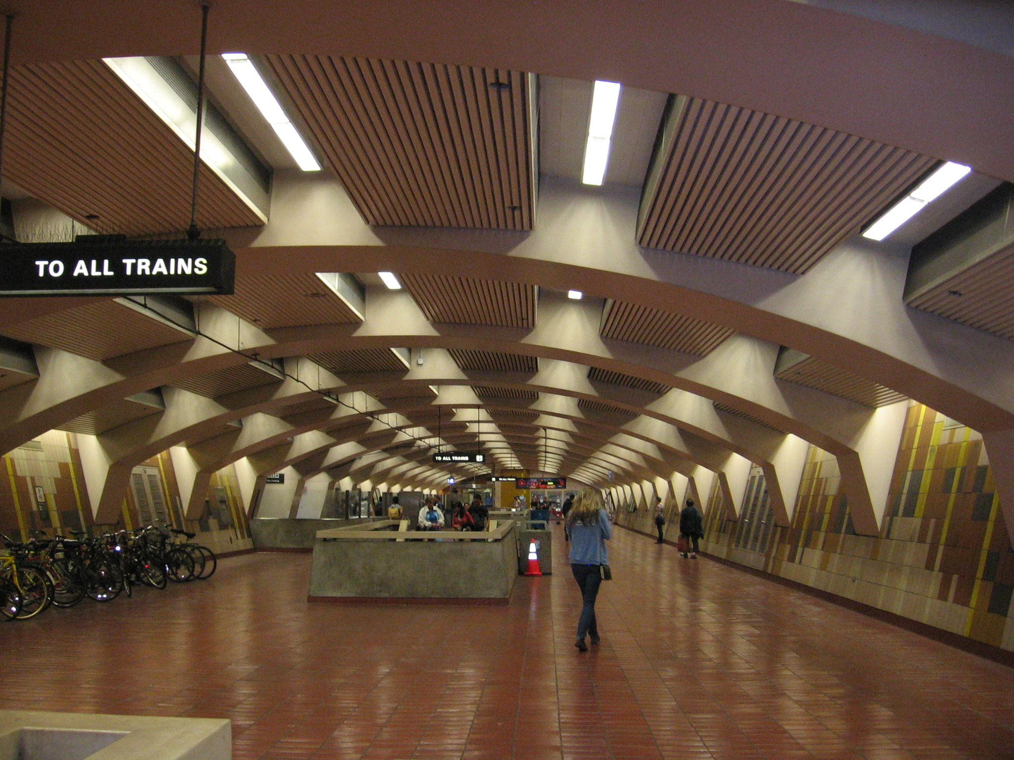 The concourse above the platforms of the 24th Street Mission (BART station) in San Francisco, California, USA.